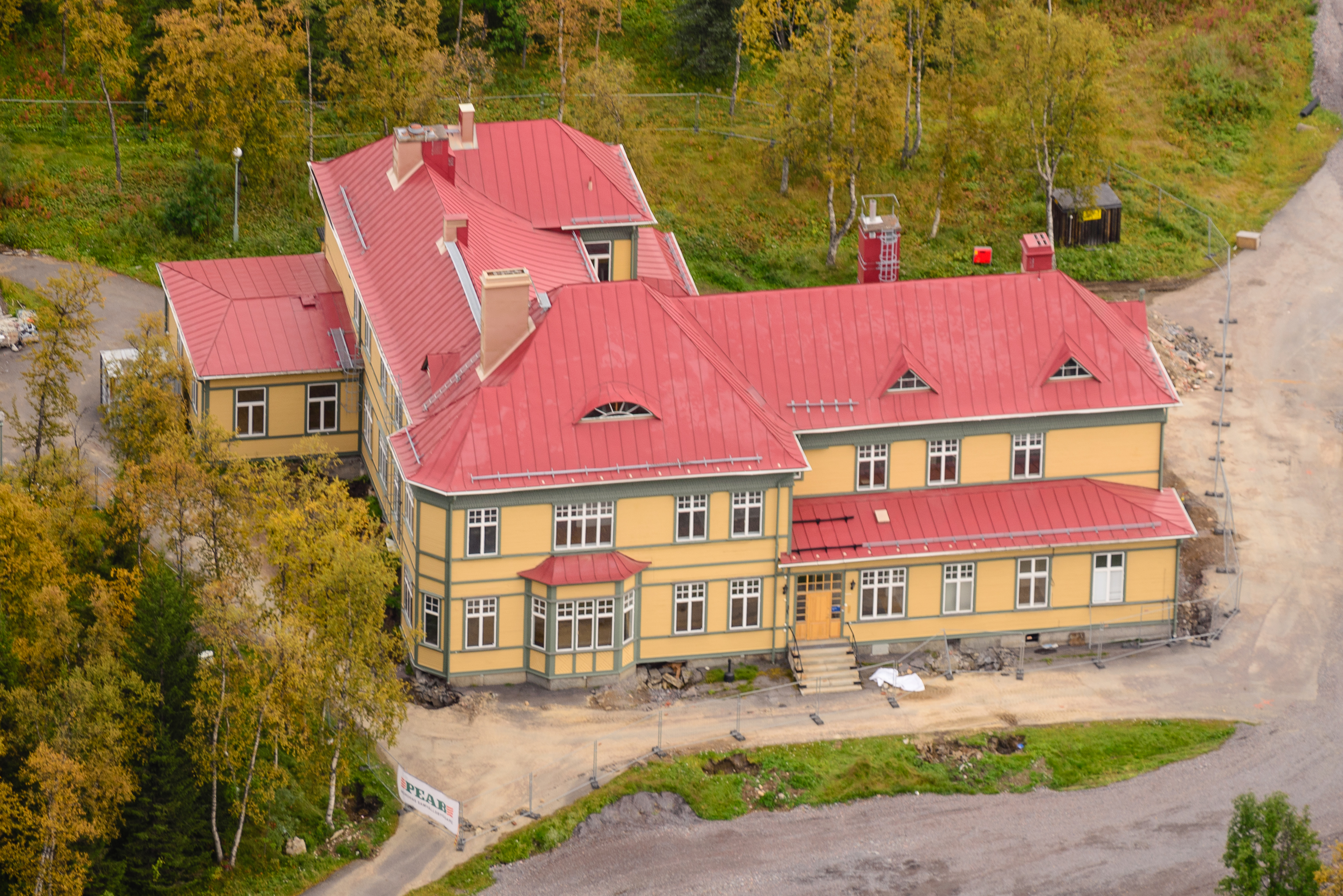 Bolagshotellet is a historic guesthouse in Kiruna built and owned by LKAB mining company. Built 1900-01, architect Gustaf Wikman. The building will be moved to a new location in 2017.